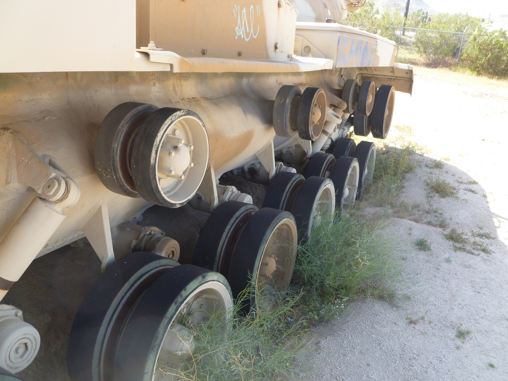 M60 tank at the General Patton Memorial Museum